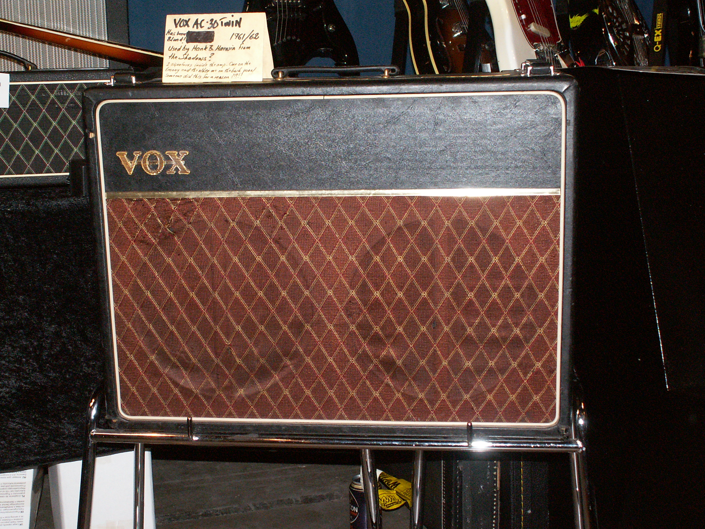 VOX AC30 Twin (1961/62) Used by Hank B. Marvin from the Shadows ?